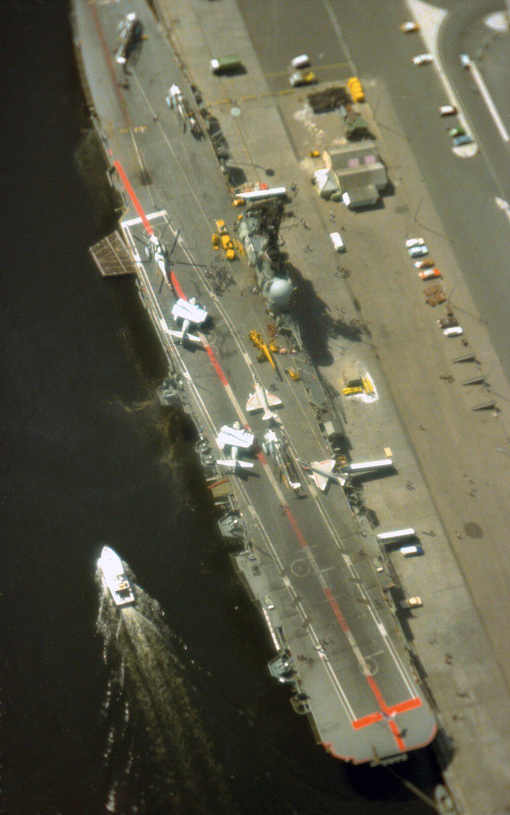 Overhead photo of HMAS Melbourne in Fremantle, 1980